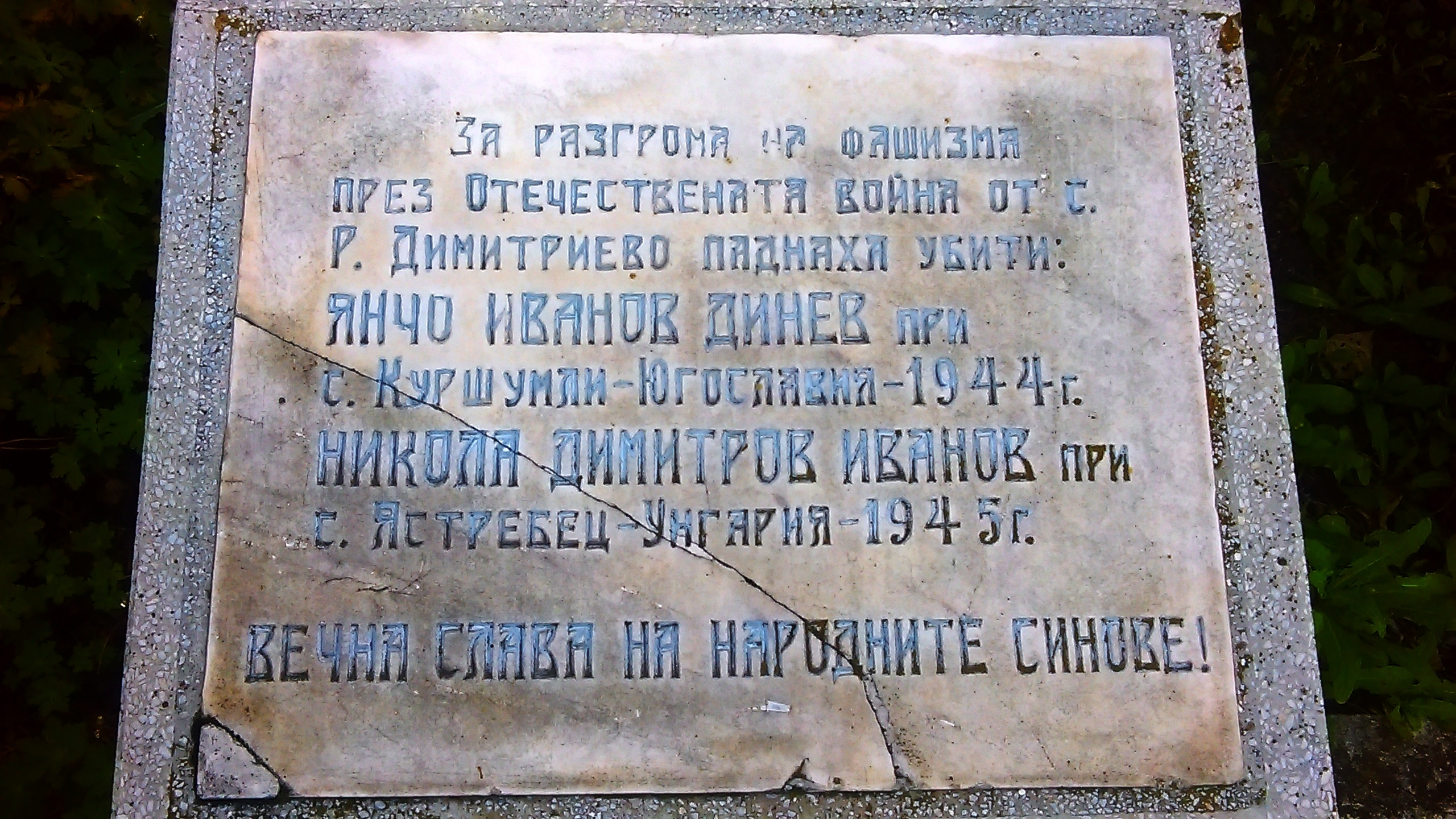 Military memorial in Radko Dimitrievo, Shumen province, Bulgaria